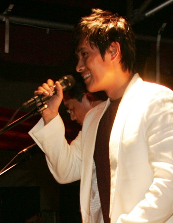 ..at the opening night gala for the 2005 Hawaii International Film Festival. I rushed into the crowd to capture the frenzy of middle-aged women swooning for the devastatingly charismatic megastar of Korean cinema. Lee starred in Bittersweet Life, Everybody Has Secrets and in breakthrough film JSA: Joint Security Area.